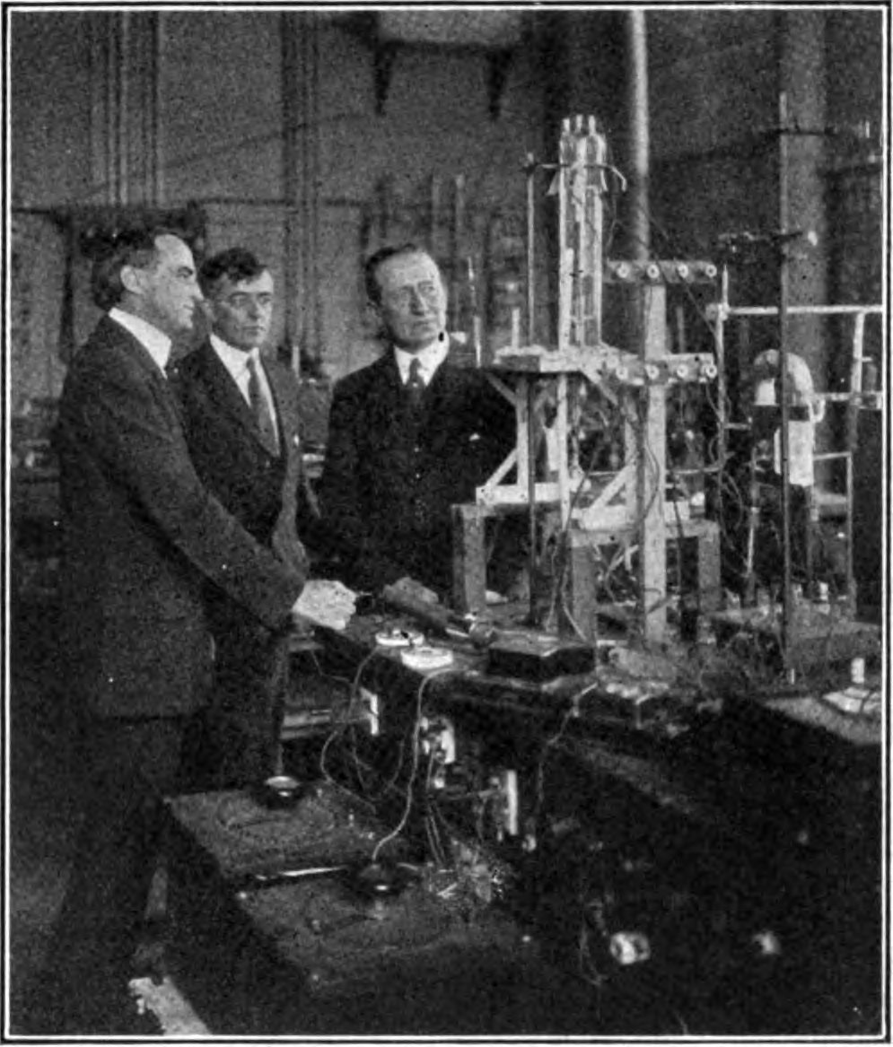 Physicist Irving Langmuir (center) in his lab at General Electric in 1922, showing radio pioneer Guglielmo Marconi (right) a new 20 kW triode vacuum tube GE has developed for radio transmitters. Langmuir, a pioneer in vacuum technology and the inventor of the diffusion pump, is responsible for developing the modern "hard vacuum" radio tubes. The man on the left is Willis R. Whitney, director of GE's research lab.